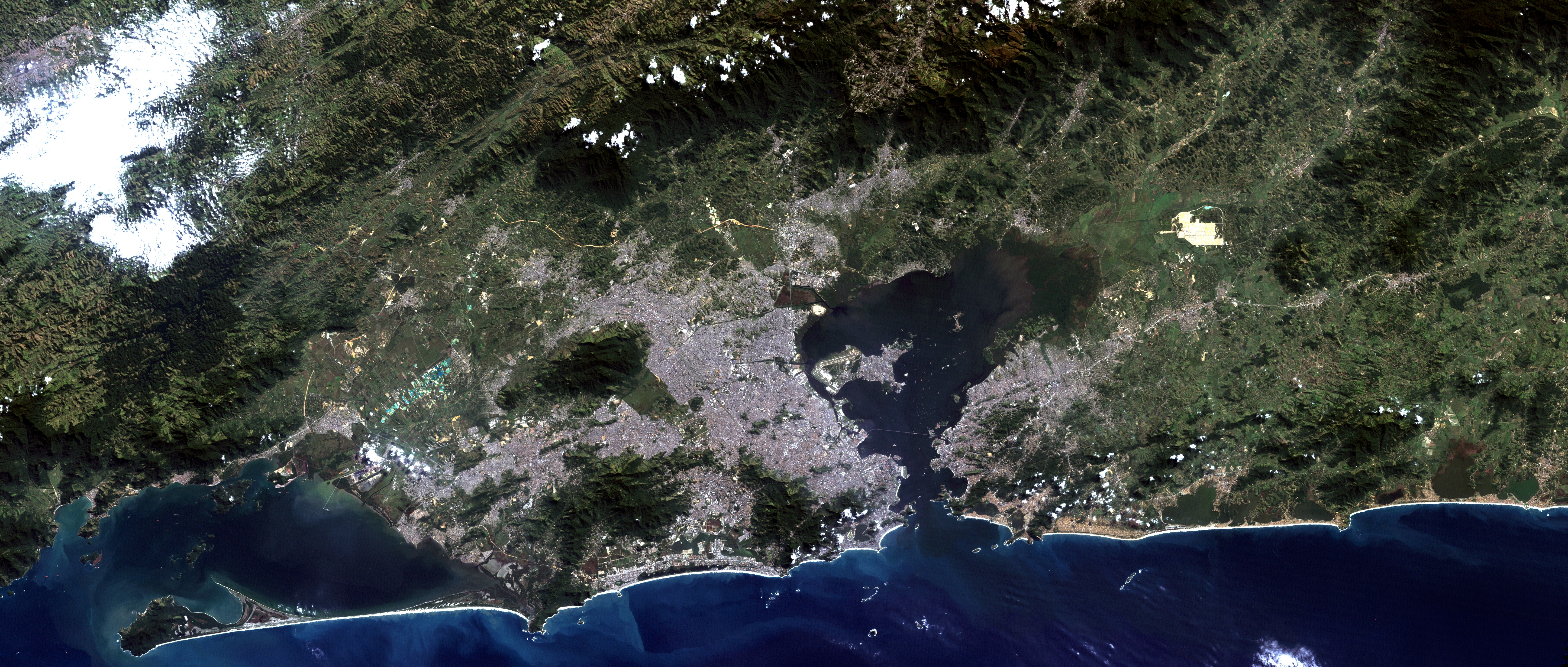 Rio de Janeiro, satellite image, LandSat-5, 2011-05-09, near natural colors, resolution 30 m